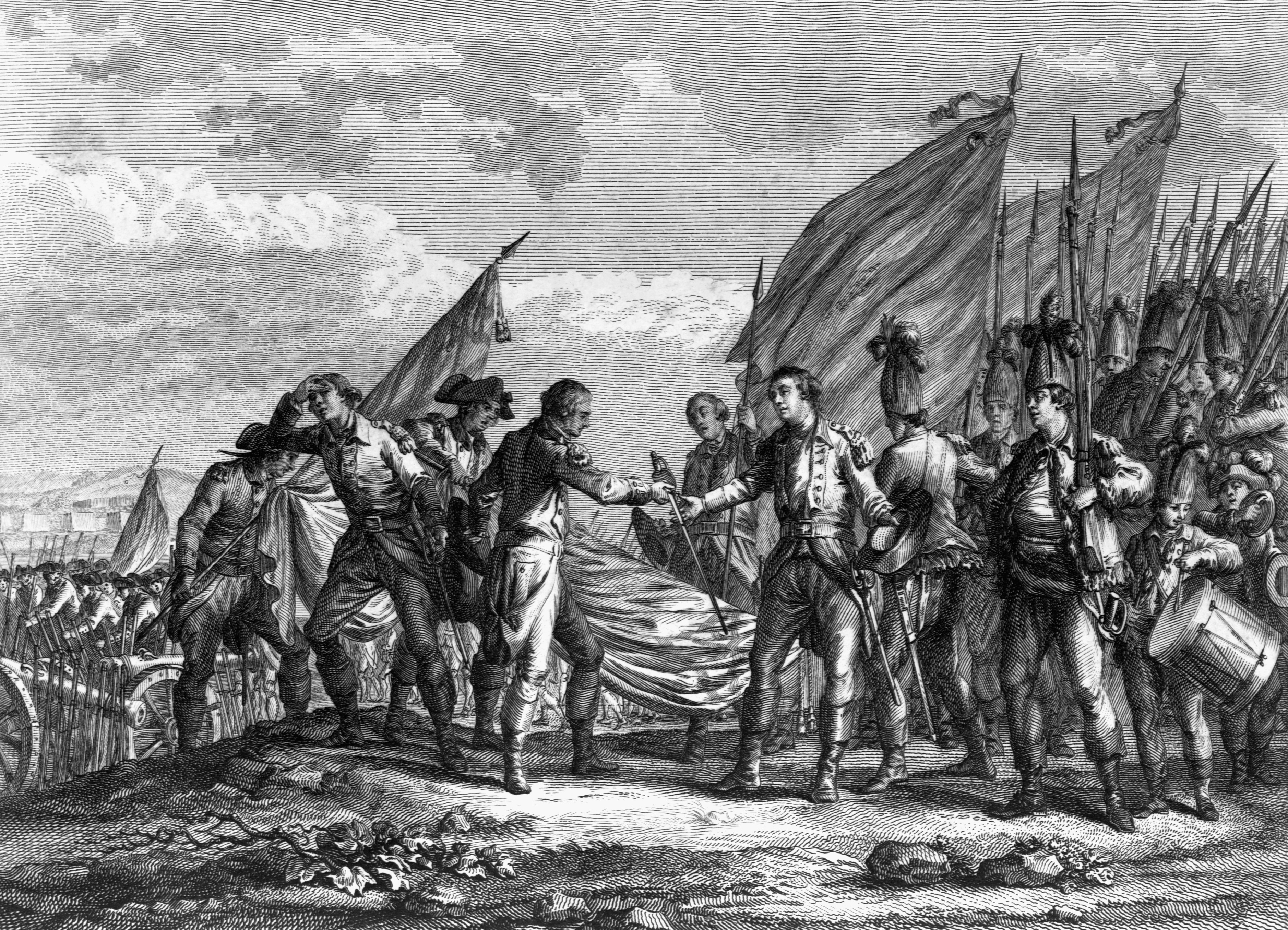 Surrender of General Burgoyne after Saratoga